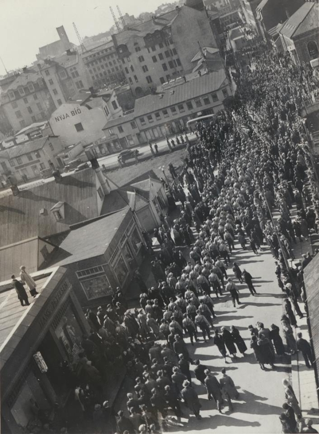 Photo taken in downtown Reykjavík, Iceland in the thirties showing a pro-Nazi march.